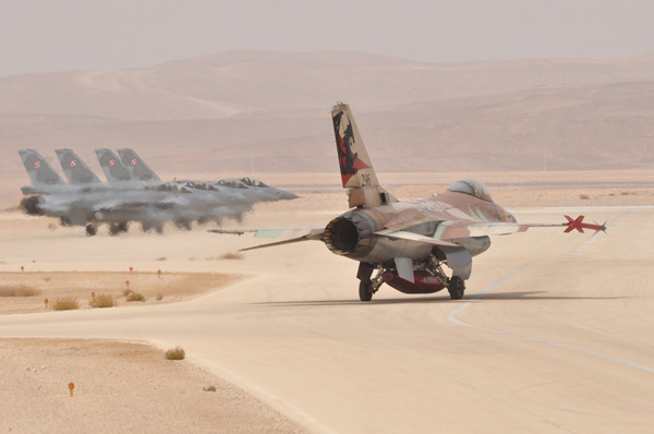 Israeli Air Force joint exercise with Polish Air Force. Polish and Israeli F-16s a moment before the battle.